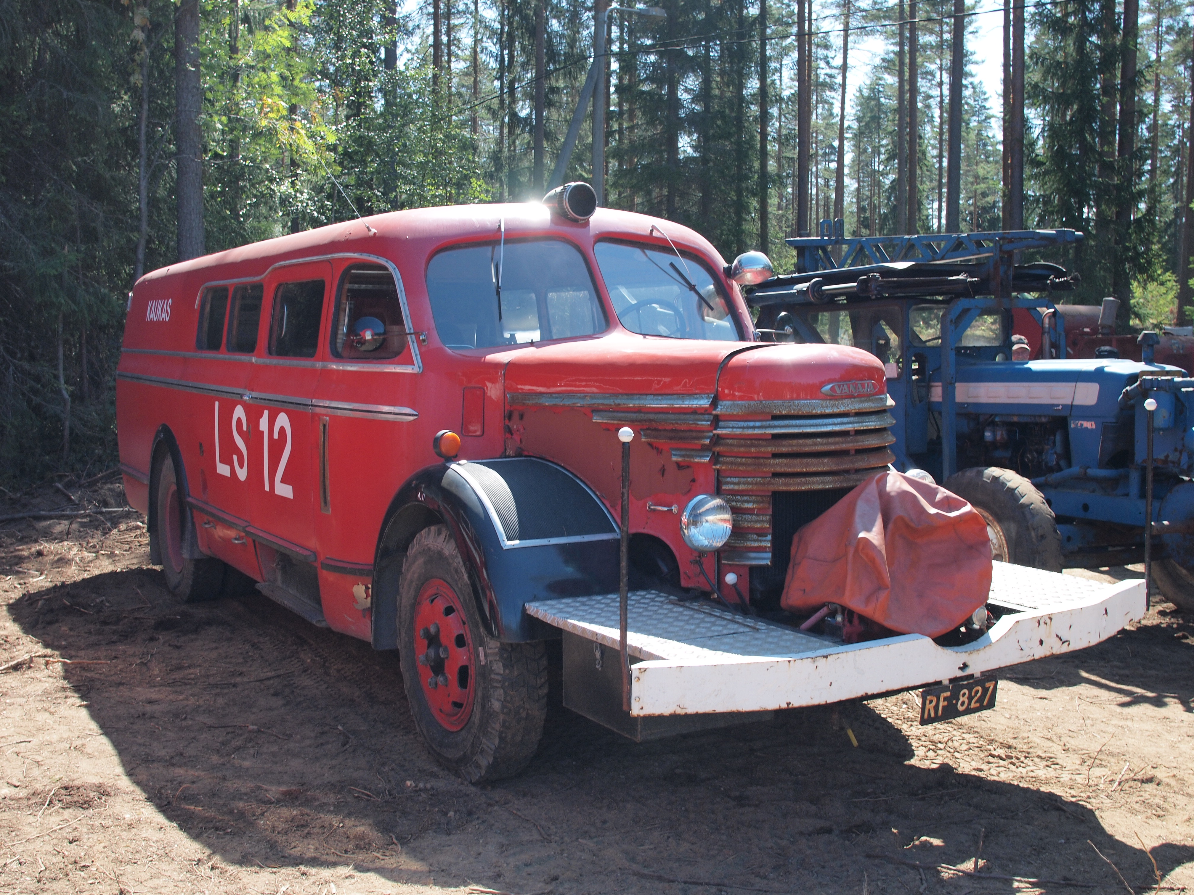 1952 Vanaja VK Fire engine. Most likely with a Cadillac V8 1G engine.